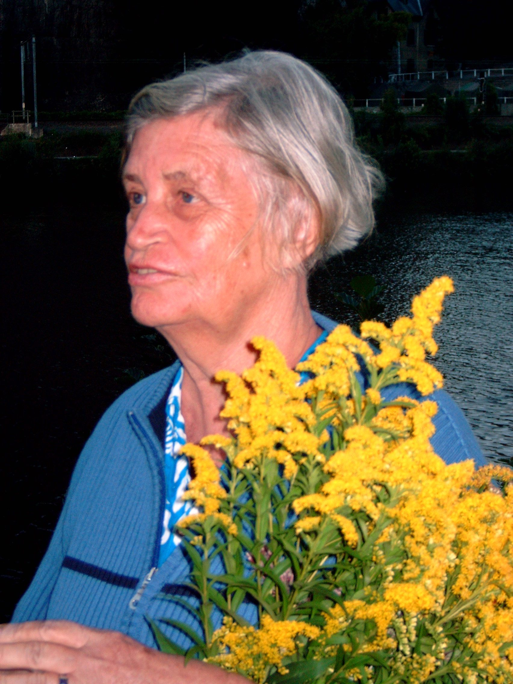 Els Moor, Surinamese writer and literary critic